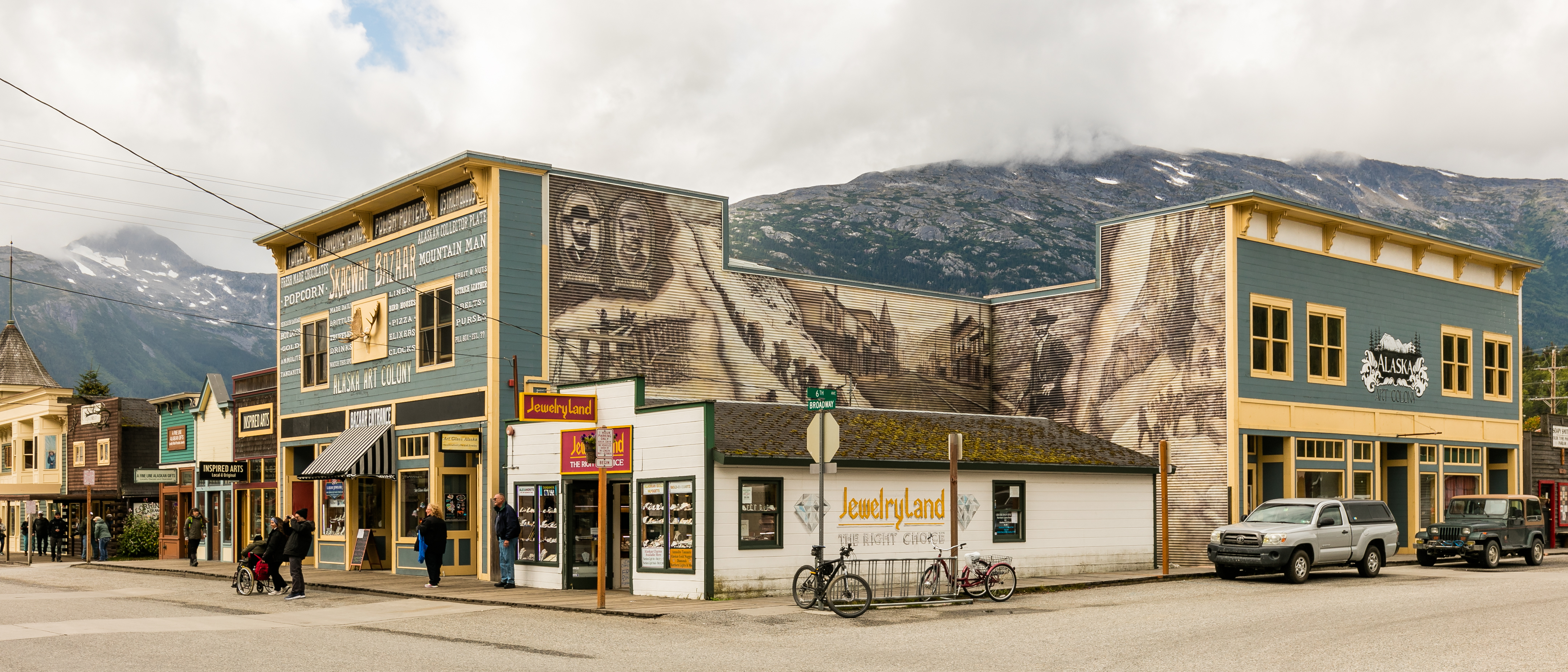 Shops in Skagway Historic District in tradicional wooden style, Alaska, United States.